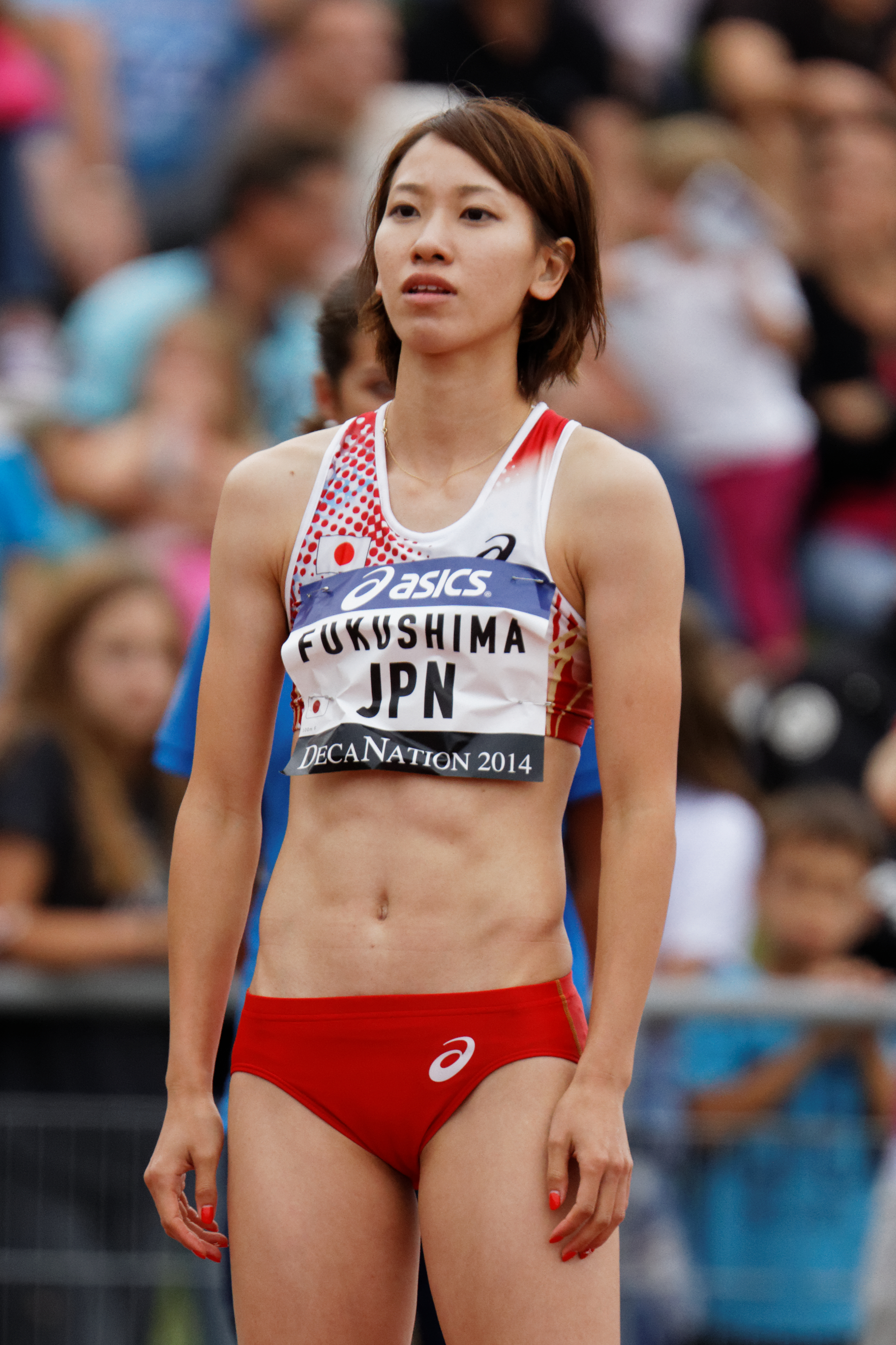 DécaNation 2014. 100m.